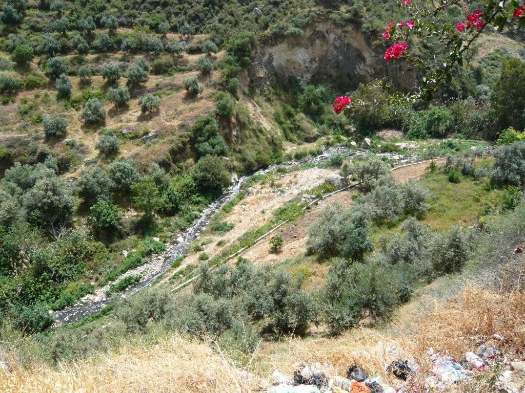 The brook known as Wadi al-Badhan, on the West Bank, northeast of Nablus